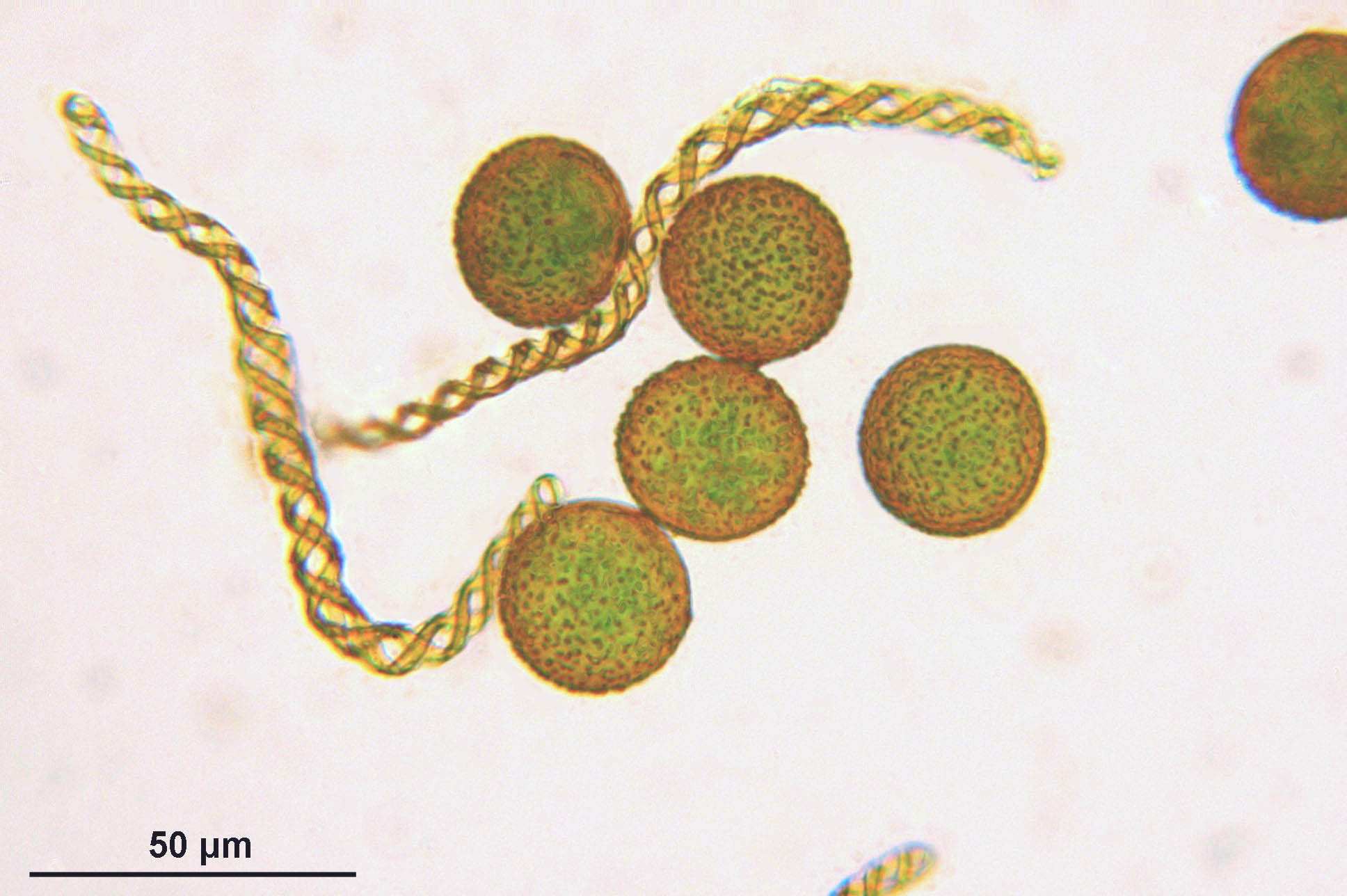 Ptilidium pulcherrimum, spores